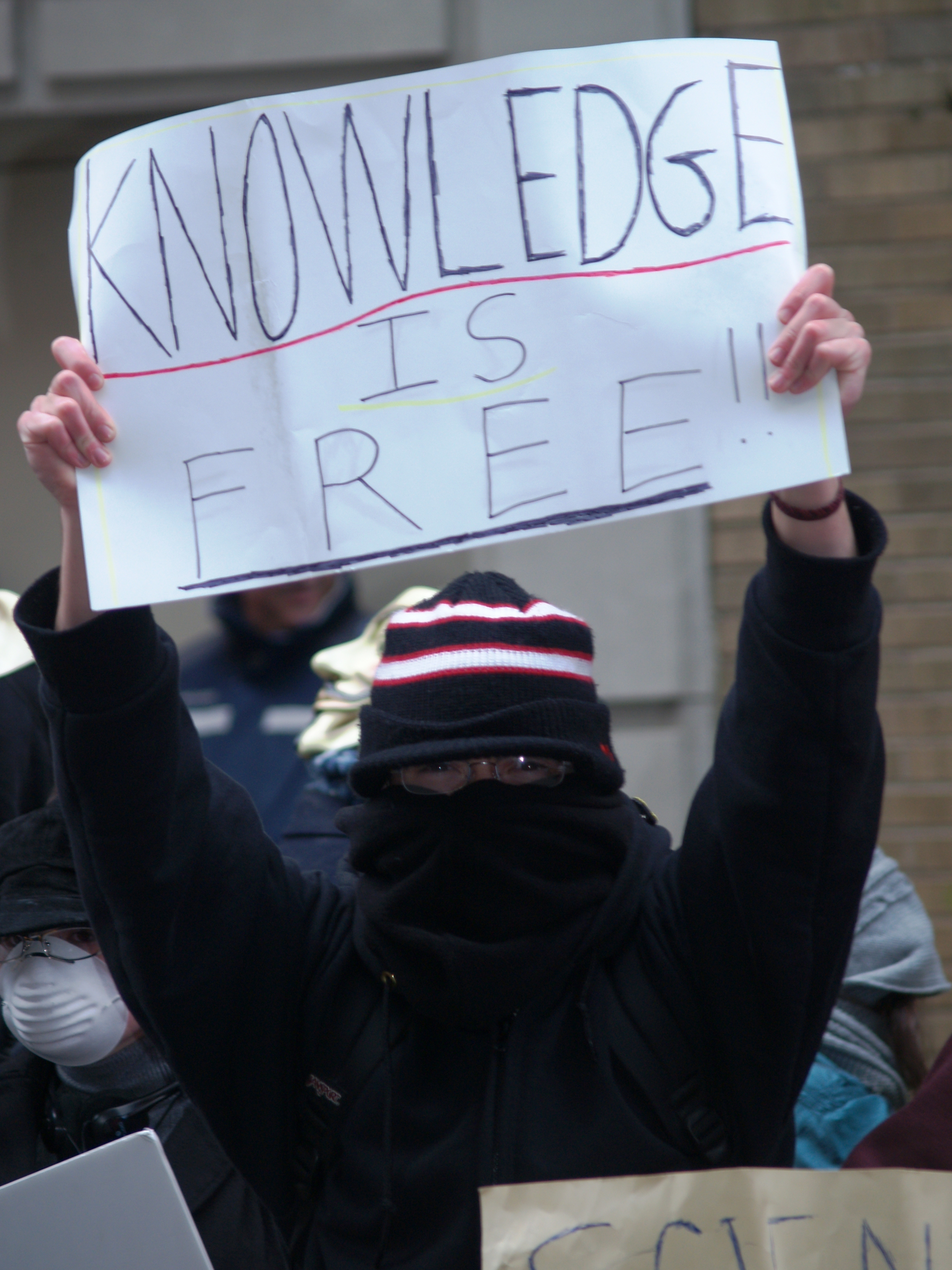 Protest by an Internet group calling itself 'Anonymous' against the practices and tax status of the Church of Scientology. The protesters believe the church is a cult that harms it practitioners, and that its tax-free status as a church should be revoked, as, they claim, it appears to be more of a corporation.